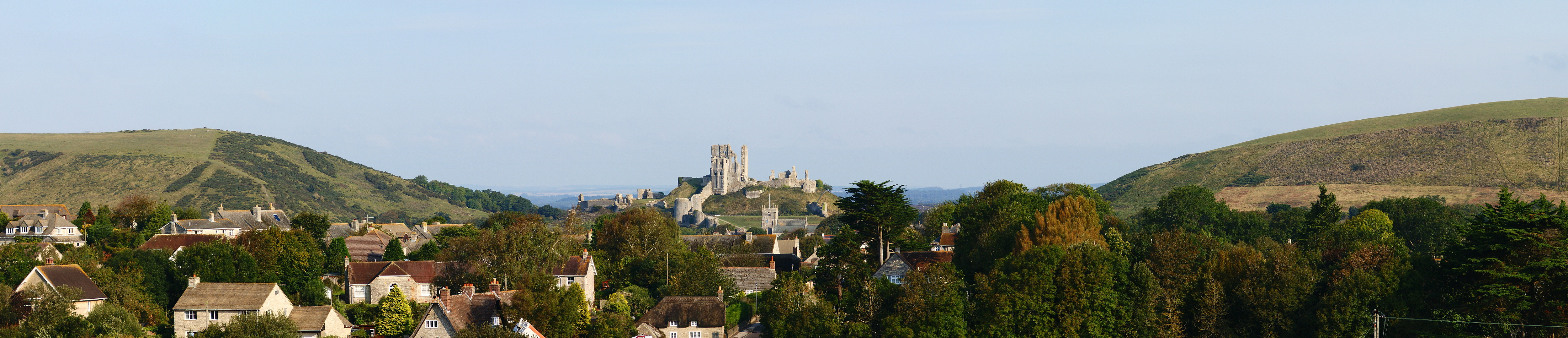 A panorama showing Corfe Castle & its setting in Dorset, UK.